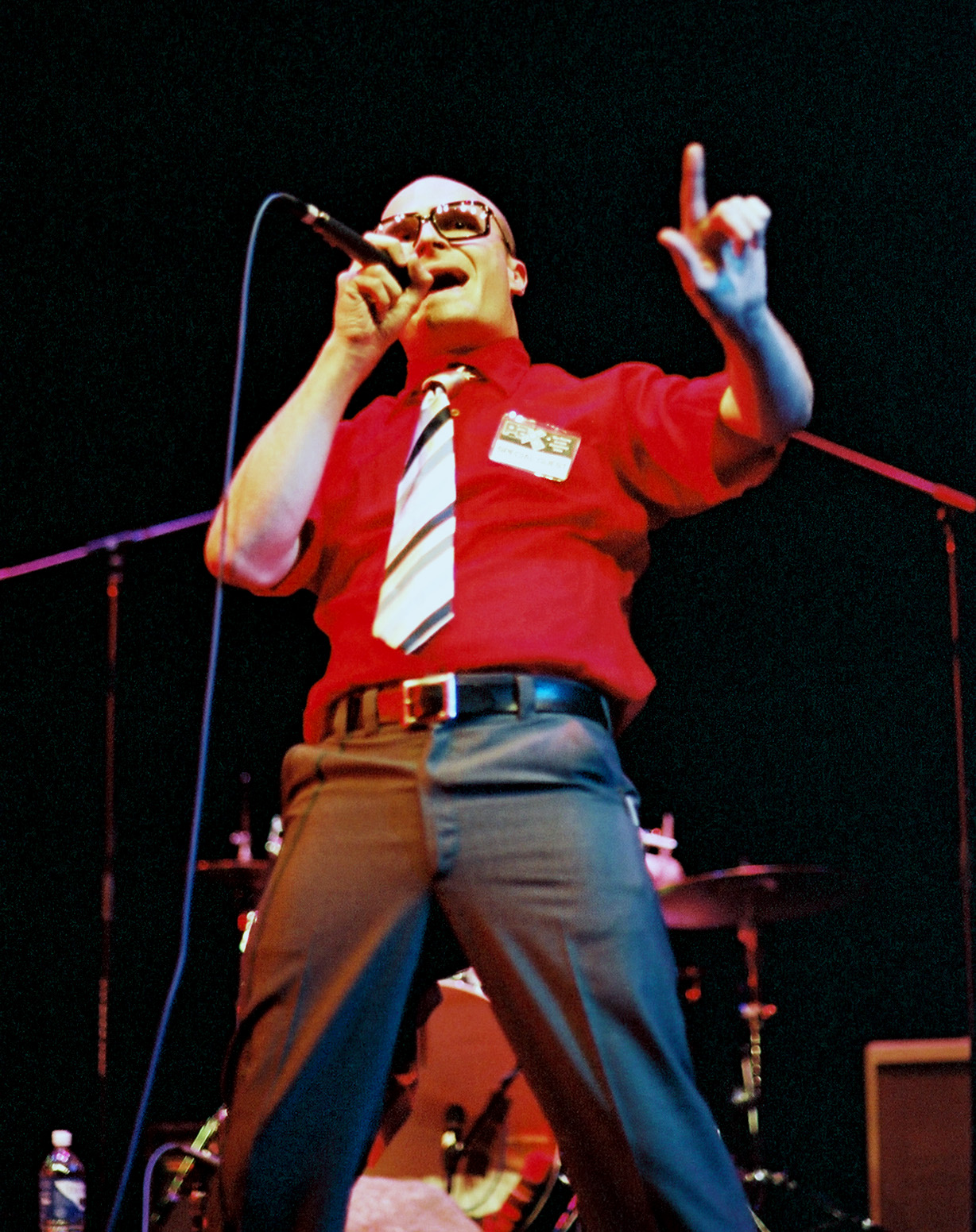 Photo of MC Frontalot taken by myself (Phil Palios) during live performance at Penny Arcade Expo 2004 (PAX04) at the Maydenbauer Center in Bellevue, WA.